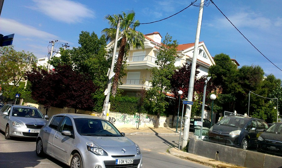 lykovrysi